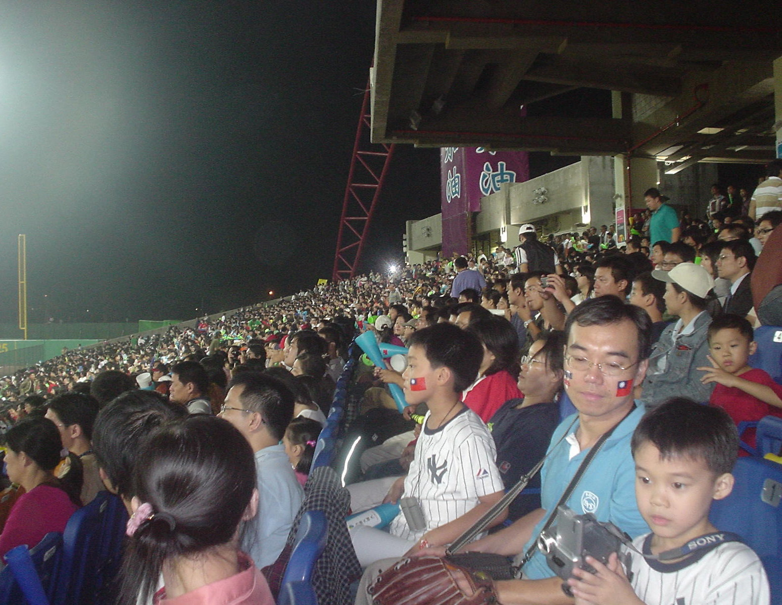 Fans at the Taichung Intercontinental Baseball Stadium enjoying the semifinal game between Cuba and Taiwan at the 2006 Intercontinental Cup in Taichung, Taiwan on November 18, 2006 Photo taken on November 18, 2006.